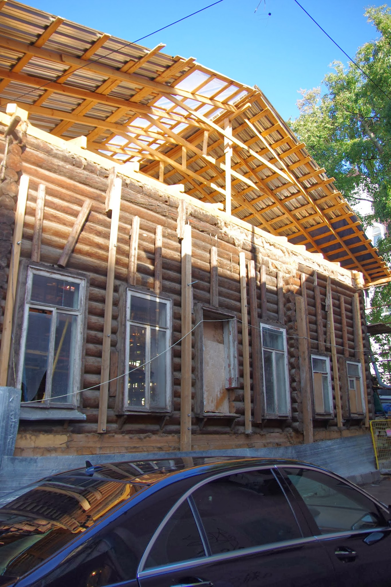 Basmanny District, Moscow, Russia // Rebuilding the XIX-century wooden house of Vasily Pushkin